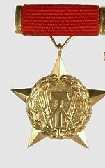 Honorary title "Hero of the Lebour" of the German Democratic Republic.